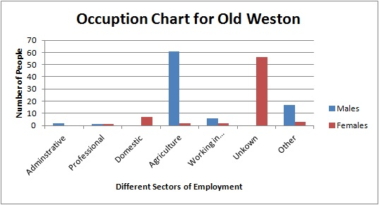 Old Weston's work sectors demographic graph from the 1881 Census. Supplied from "Vision of Britain".